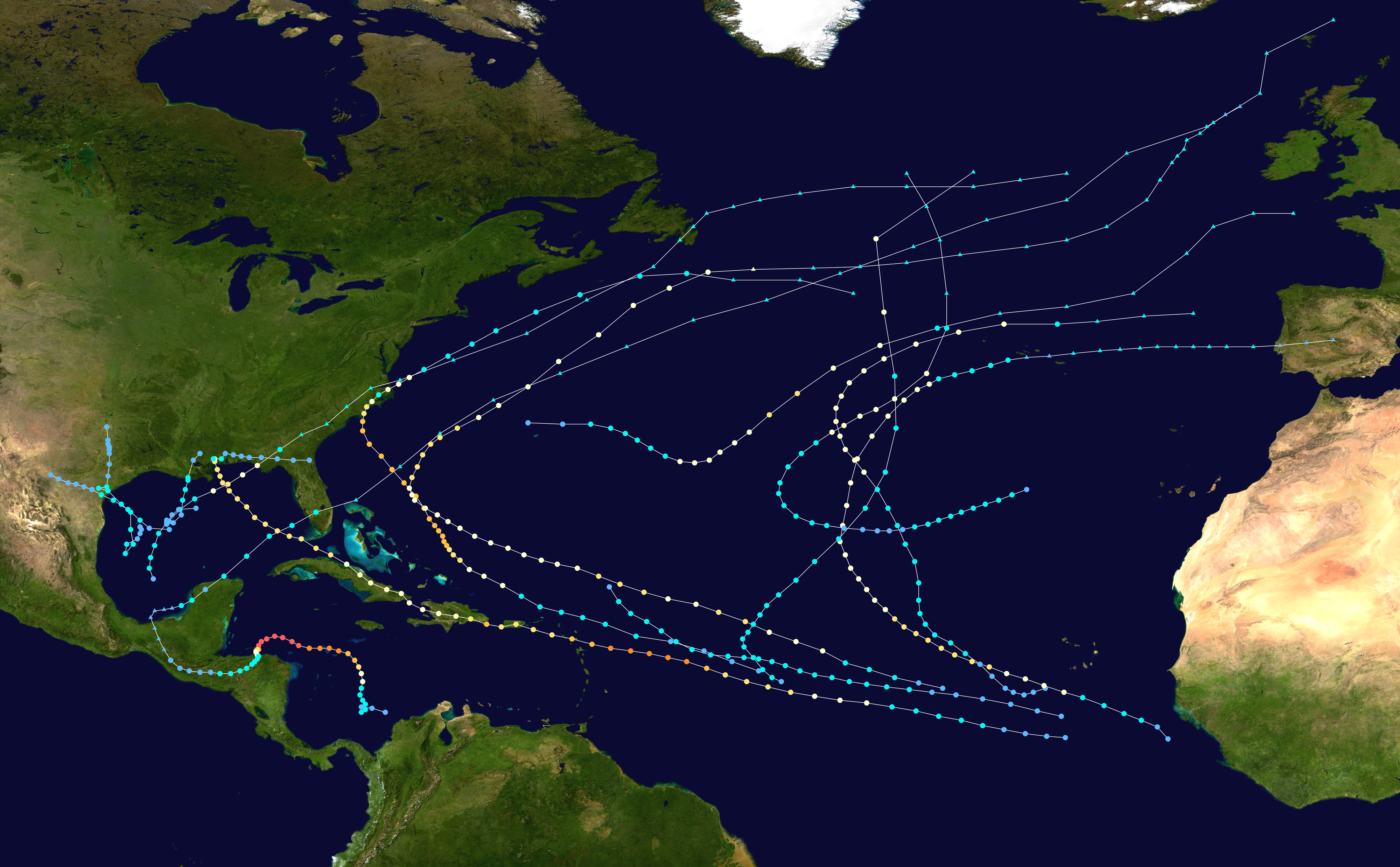 This map shows the tracks of all tropical cyclones in the 1998 Atlantic hurricane season. The points show the location of each storm at 6-hour intervals. The colour represents the storm's maximum sustained wind speeds as classified in the Saffir-Simpson Hurricane Scale (see below), and the shape of the data points represent the type of the storm. Saffir–Simpson scale Tropical depression≤38 mph≤62 km/h Category 3111–129 mph178–208 km/h Tropical storm39–73 mph63–118 km/h Category 4130–156 mph209–251 km/h Category 174–95 mph119–153 km/h Category 5≥157 mph≥252 km/h Category 296–110 mph154–177 km/h Unknown Storm type Tropical cyclone Subtropical cyclone Extratropical cyclone / Remnant low / Tropical disturbance / Monsoon depression